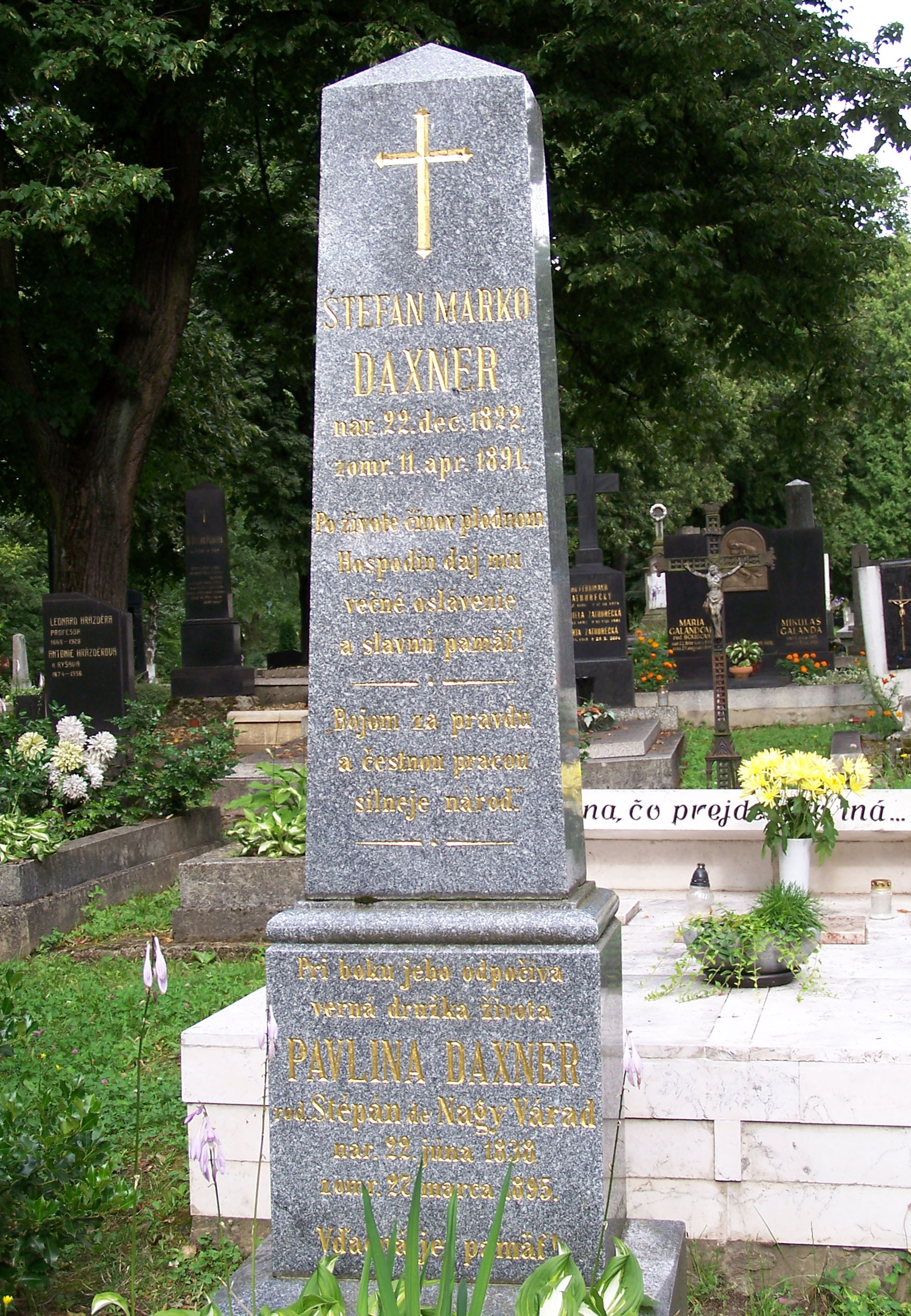 Grave of Štefan Marko Daxner at the National Cemetery in Martin, Slovakia